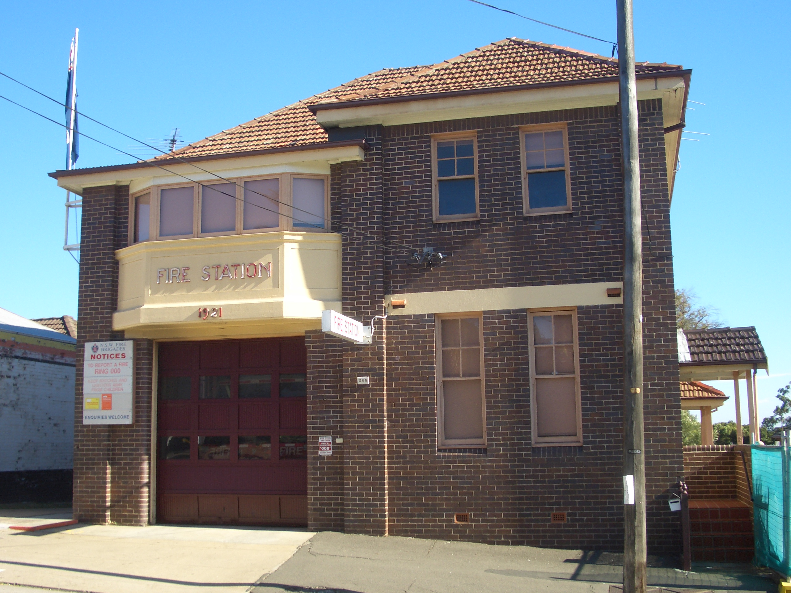 Lakemba Fire Station